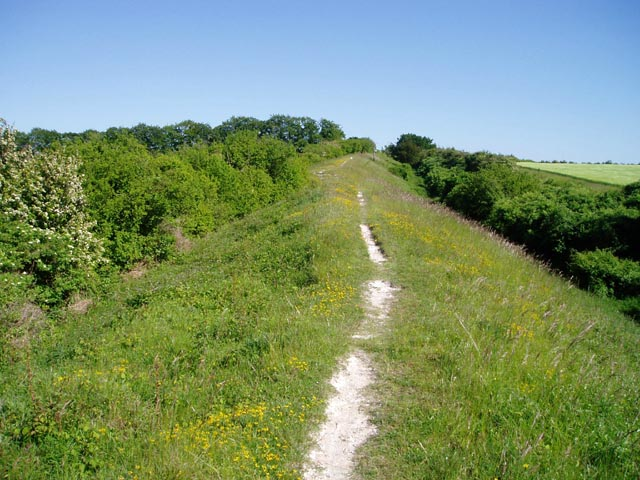 Fleam Dyke approaching Mutlow Hill. For more information on the Fleam Dyke see 182248. Mutlow Hill, in the distance and also in this square, has an Iron Age tumulus on top.